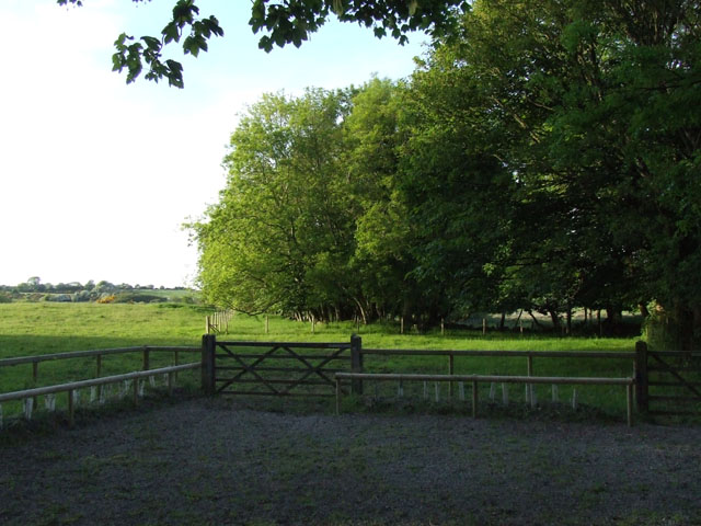 Cors Coch Nature Reserve. A small carpark at one entrance to the 167 acre Cors Coch Nature Reserve. This is a National Nature Reserve with fen, grassland & heath with wide range of wildflowers and animals.